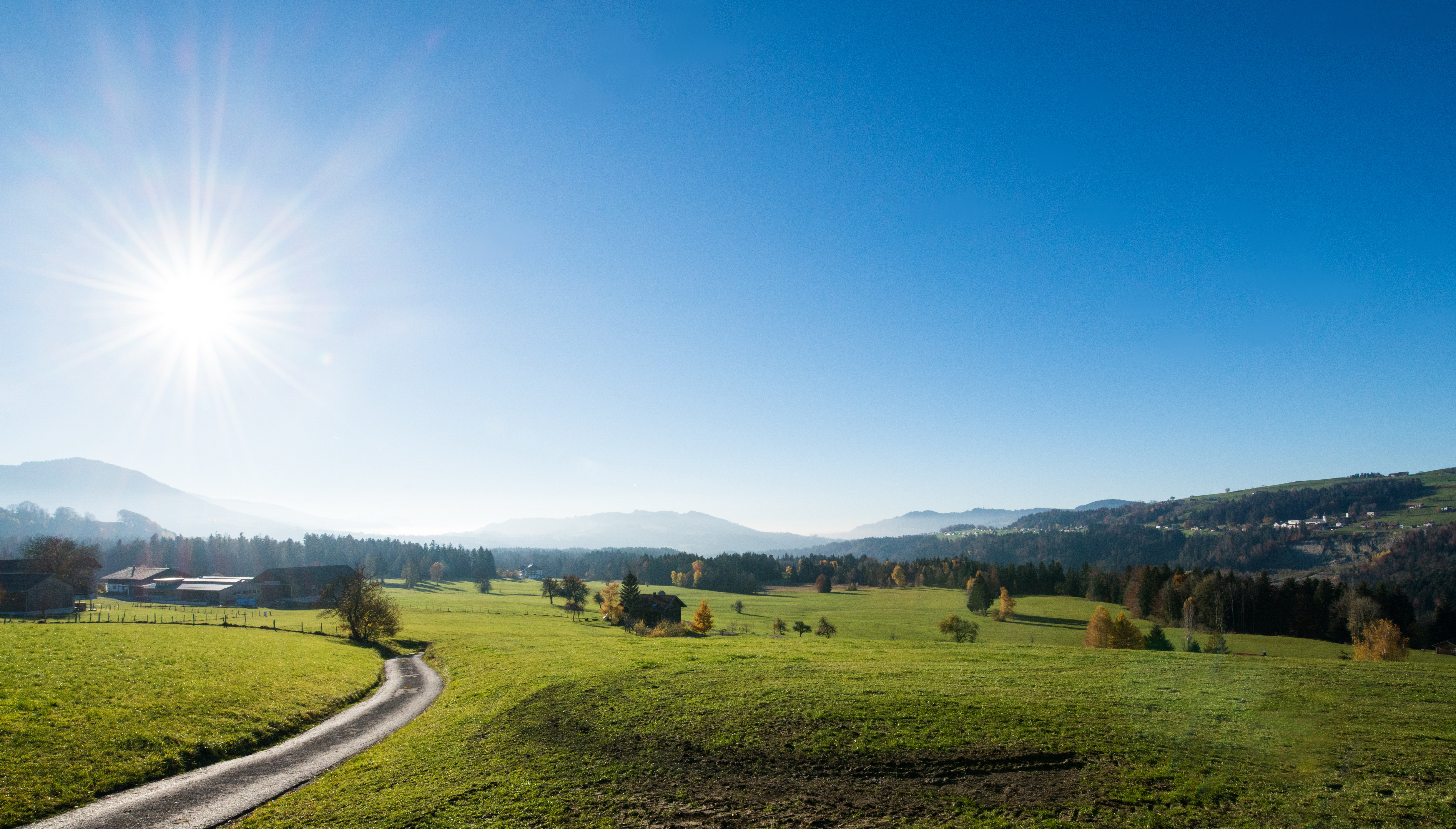 Nature reserve Rossbad in Krumbach, Vorarlberg, Austria. Moor.